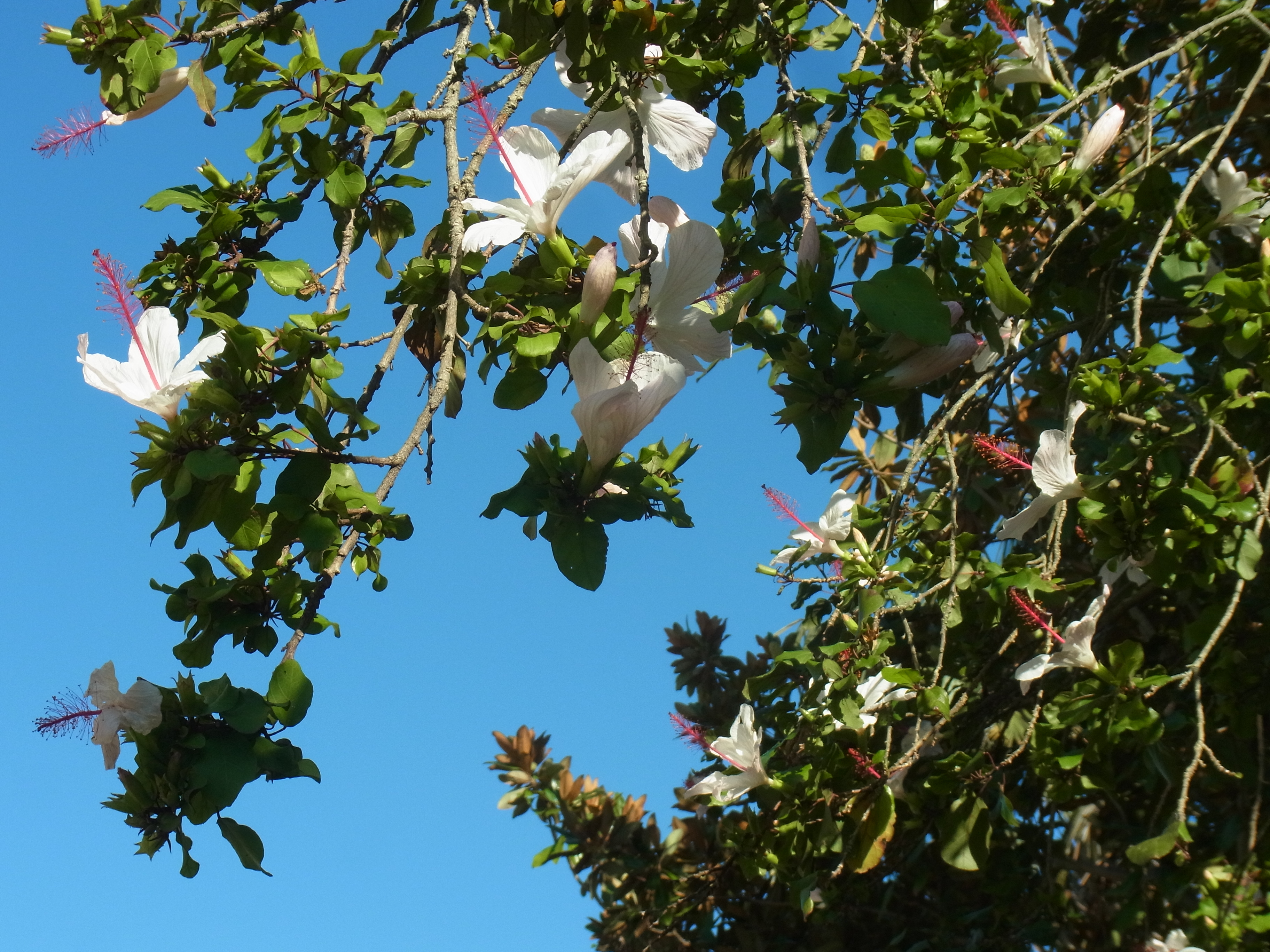 flowering hibiscus bush beside verandah of Margaret Olley's home in Duxford Street Paddington NSW